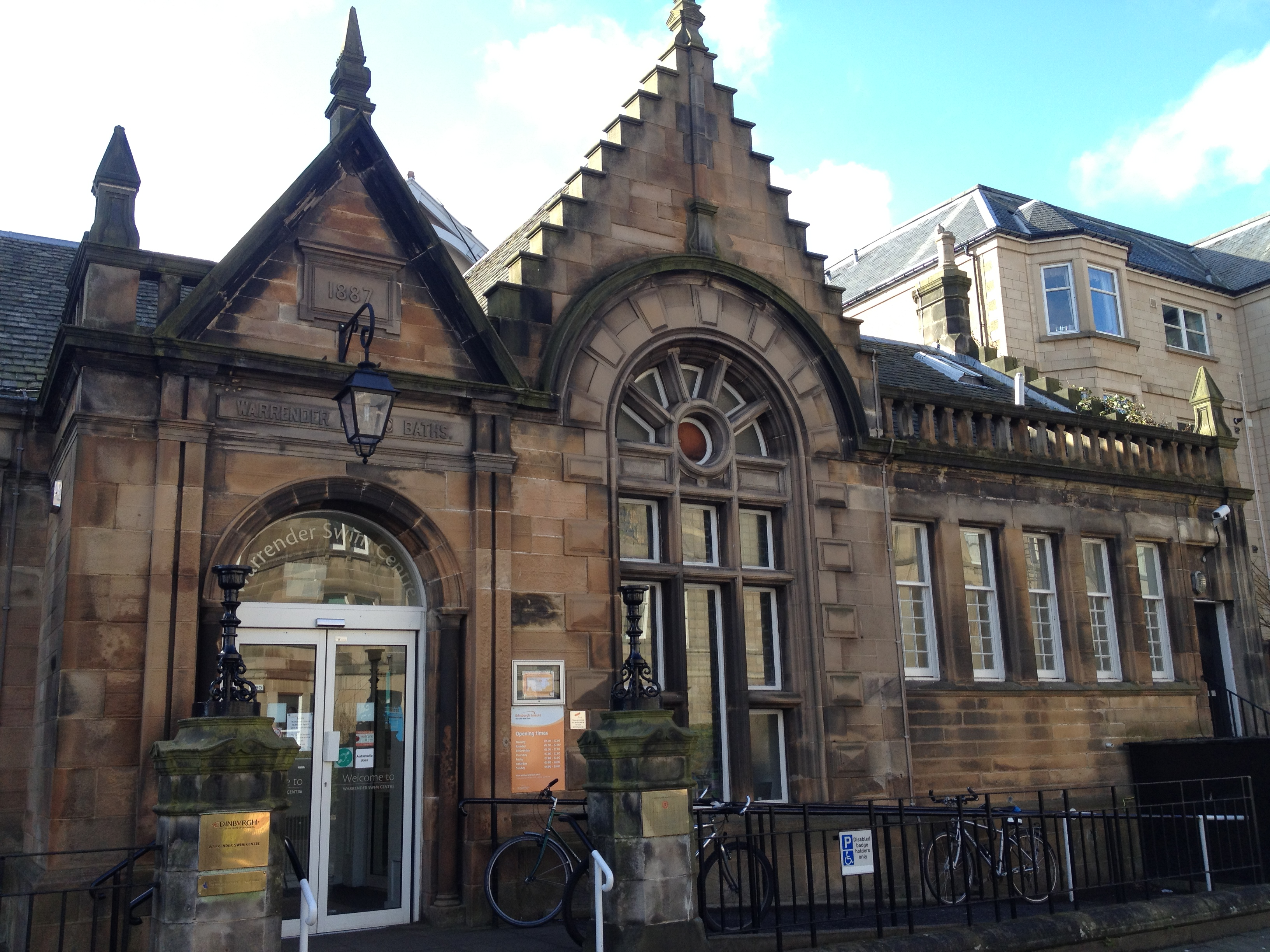 Warrender Swim Centre, Thirlstane Road, Edinburgh